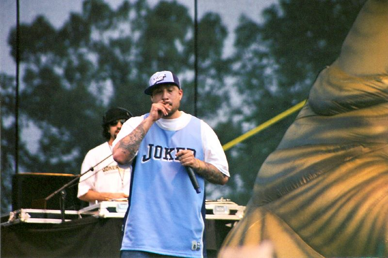 B-Real of Cypress Hill performing at Bonnaroo 2006.